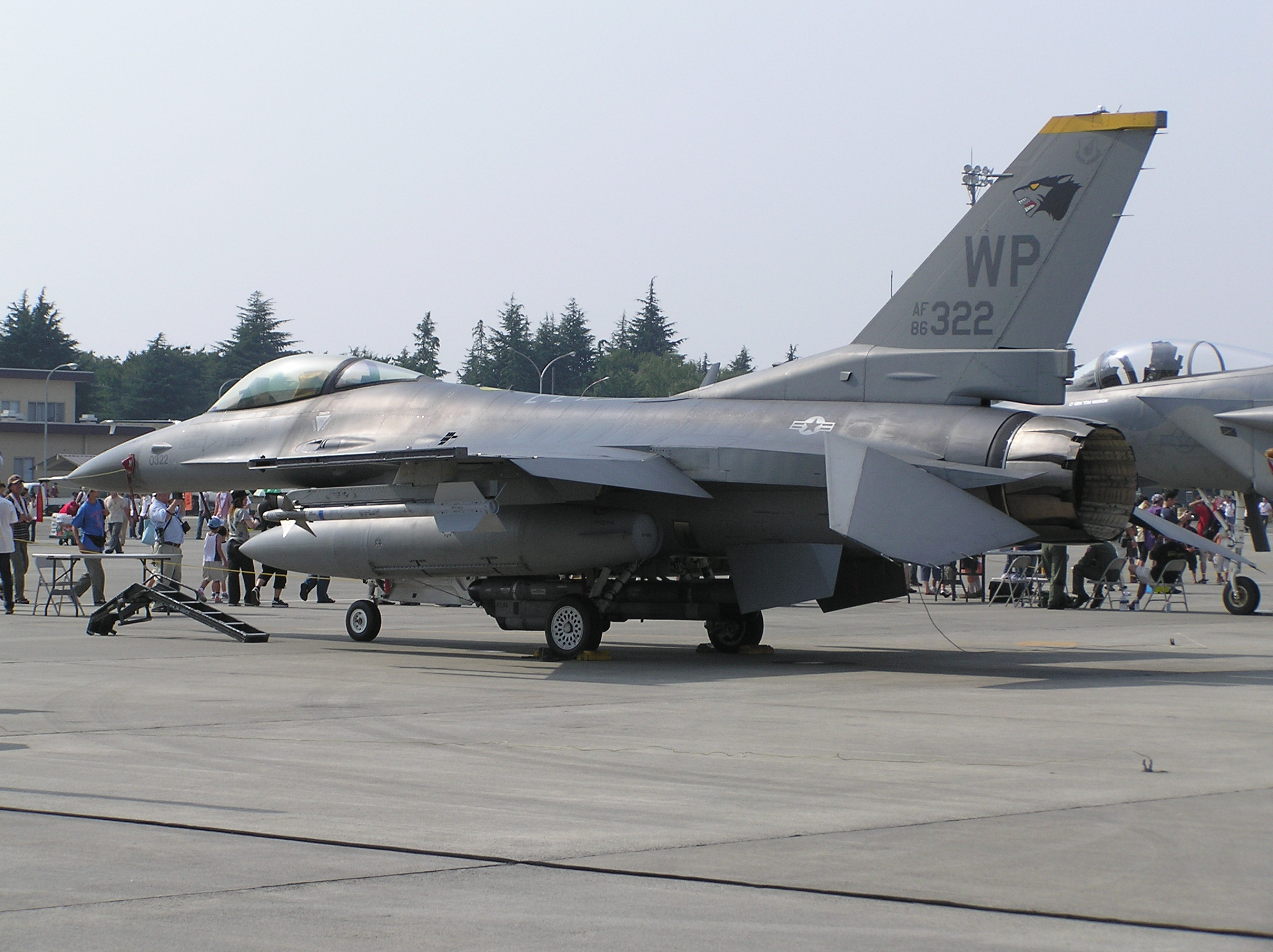 U.S. Air Force F-16 Fighting Falcon